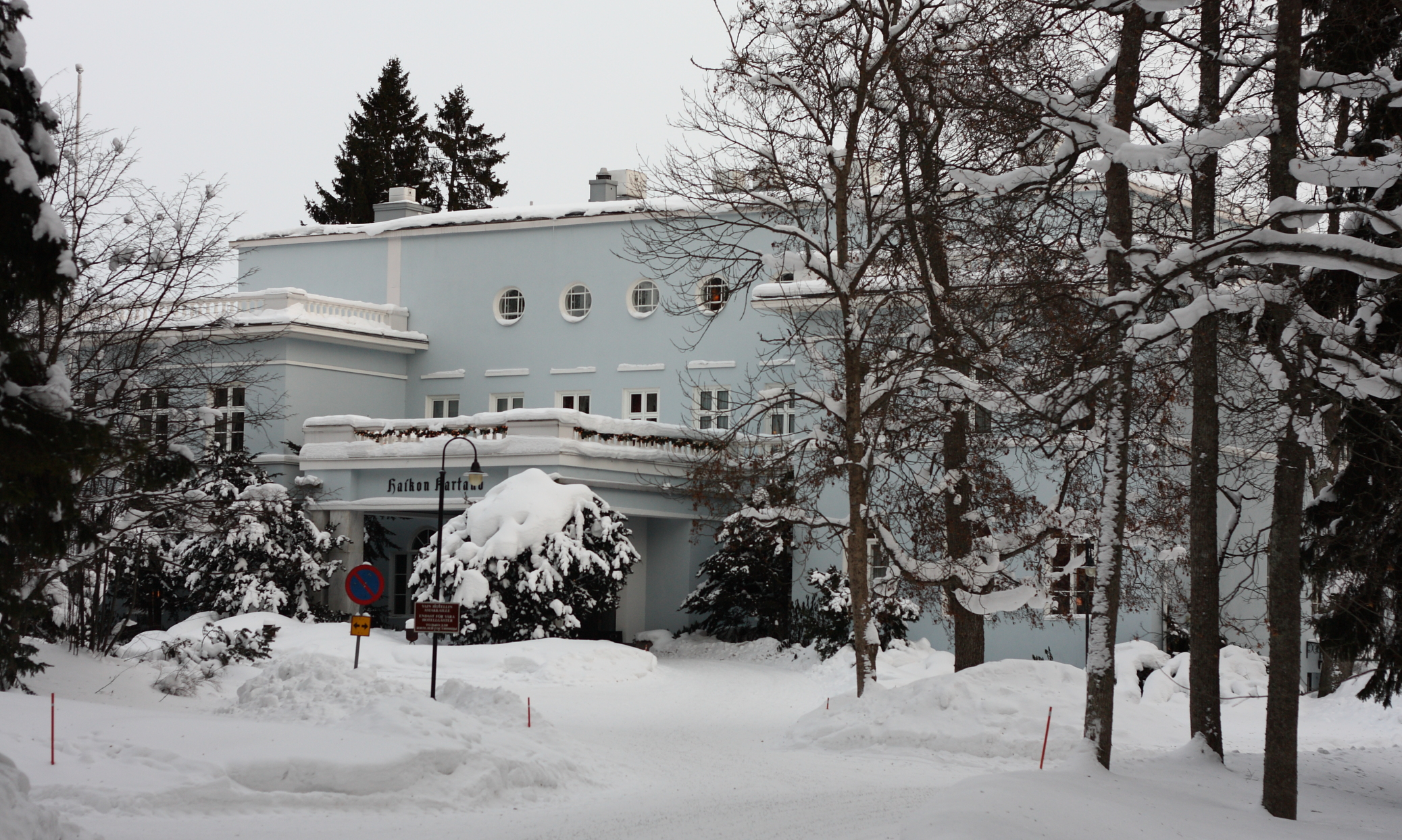 Haikon Kartano spa and hotel in Porvoo, Finland.